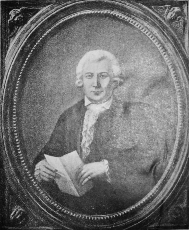 Jan Dekert